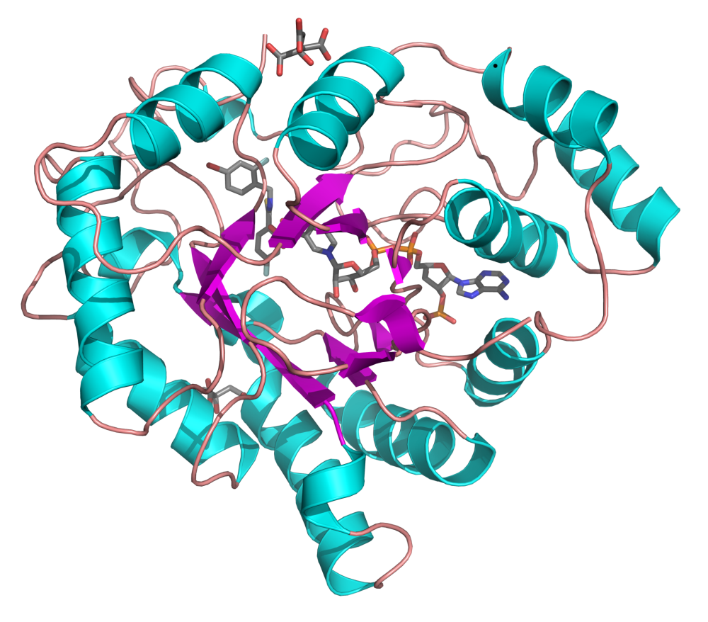 Cartoon diagram of human aldose reductase in complex with NADP+, citrate, and IDD594, a small molecule inhibitor.Created using PyMOL ( and GIMP; optimized with OptiPNG.